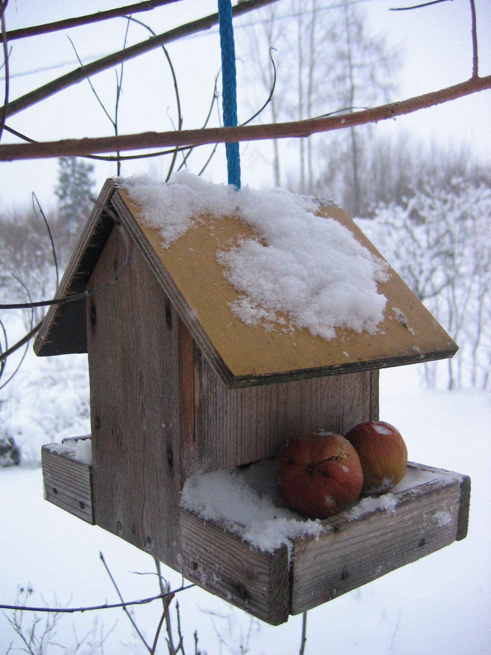 Traditional self-made wooden bird table.